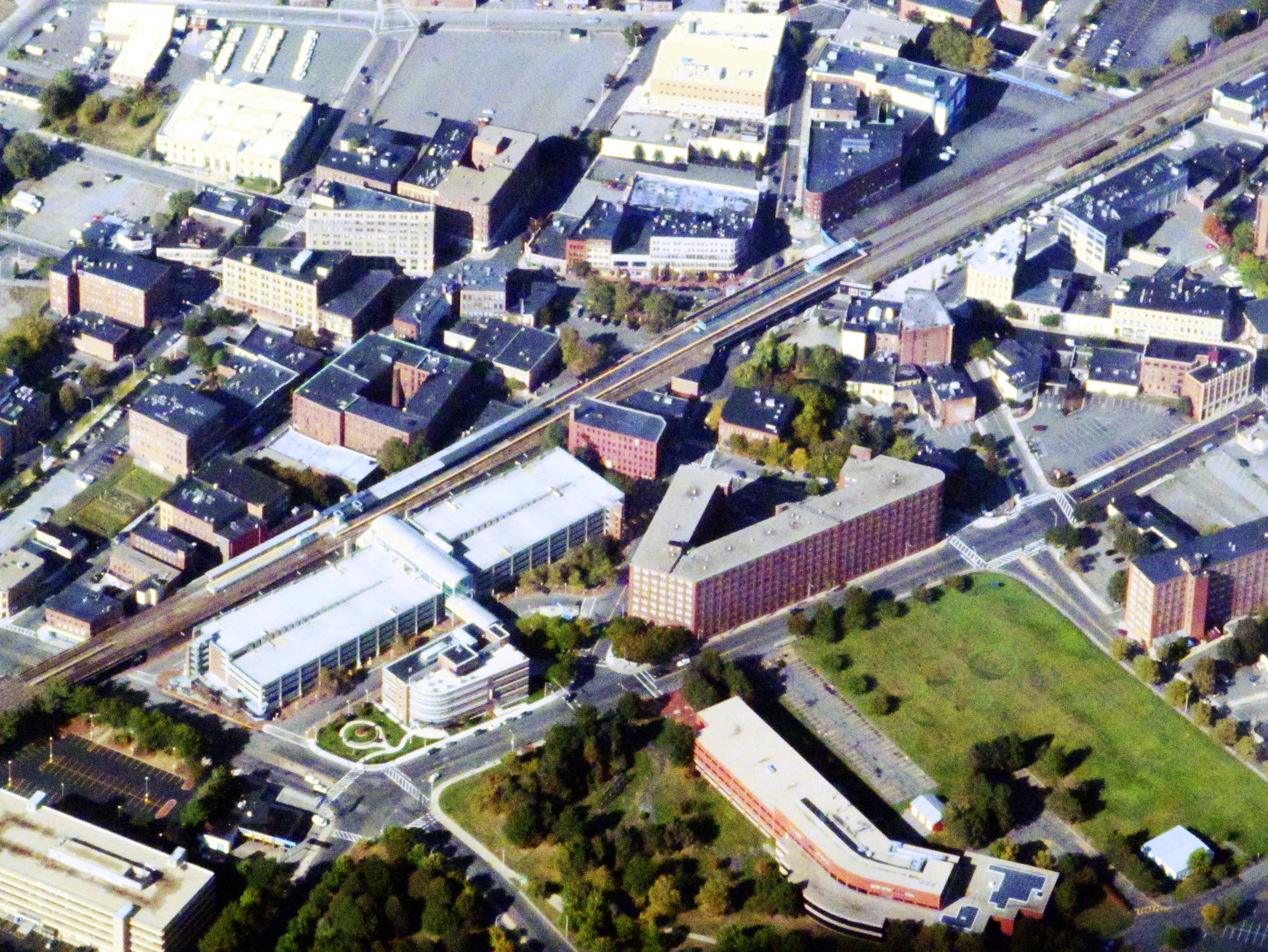 Aerial view of the rail viaduct through downtown Lynn and Lynn station